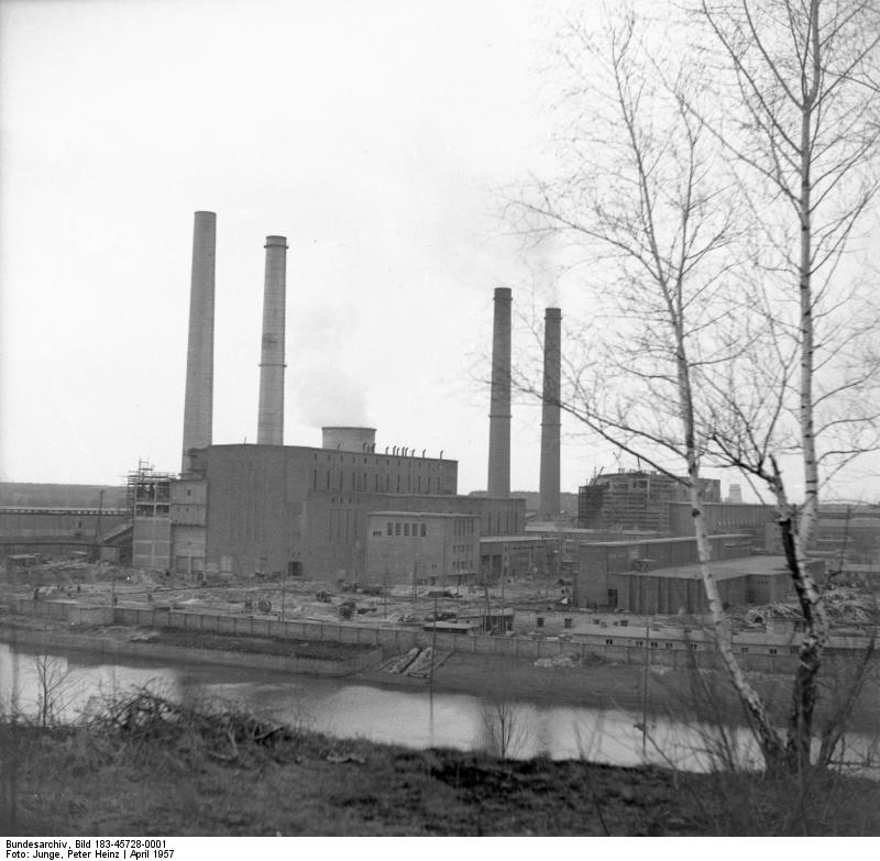 Trattendorf power plant with 6 turbines and a total capacity of 150 MW as of 1956.